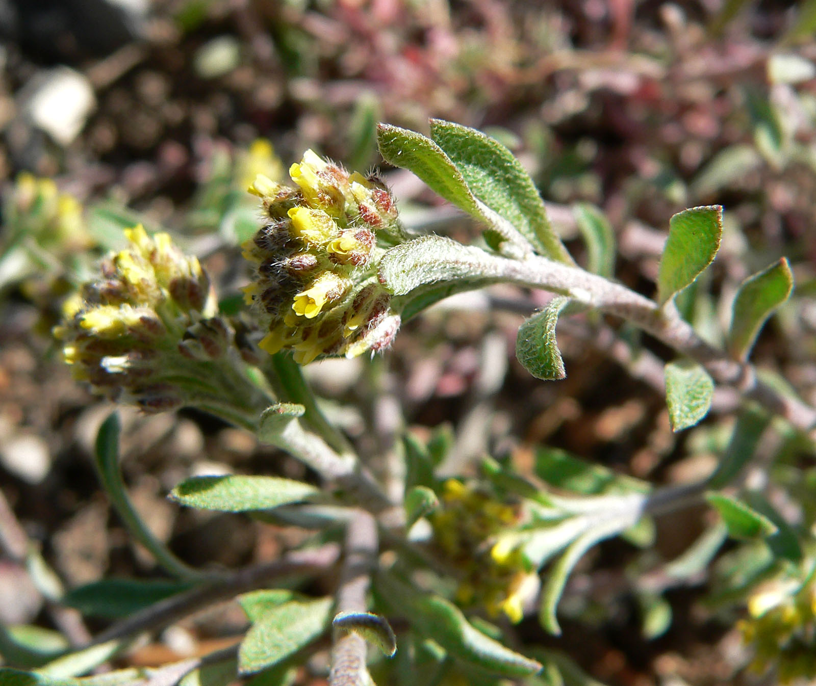 Alyssum desertorum var. desertorum near Camp Bonanza Road about 200 m south past the houses in Cold Creek, Spring Mountains, southern Nevada (elev. about 2000 m)